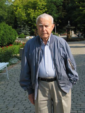 Władysław Zachariasiewicz (Walter Zachariasiewicz, born November 7, 1911 in Cracow, Poland), Polish military officer and soldier of World War II, veteran. Activist of Polish diaspora in USA.